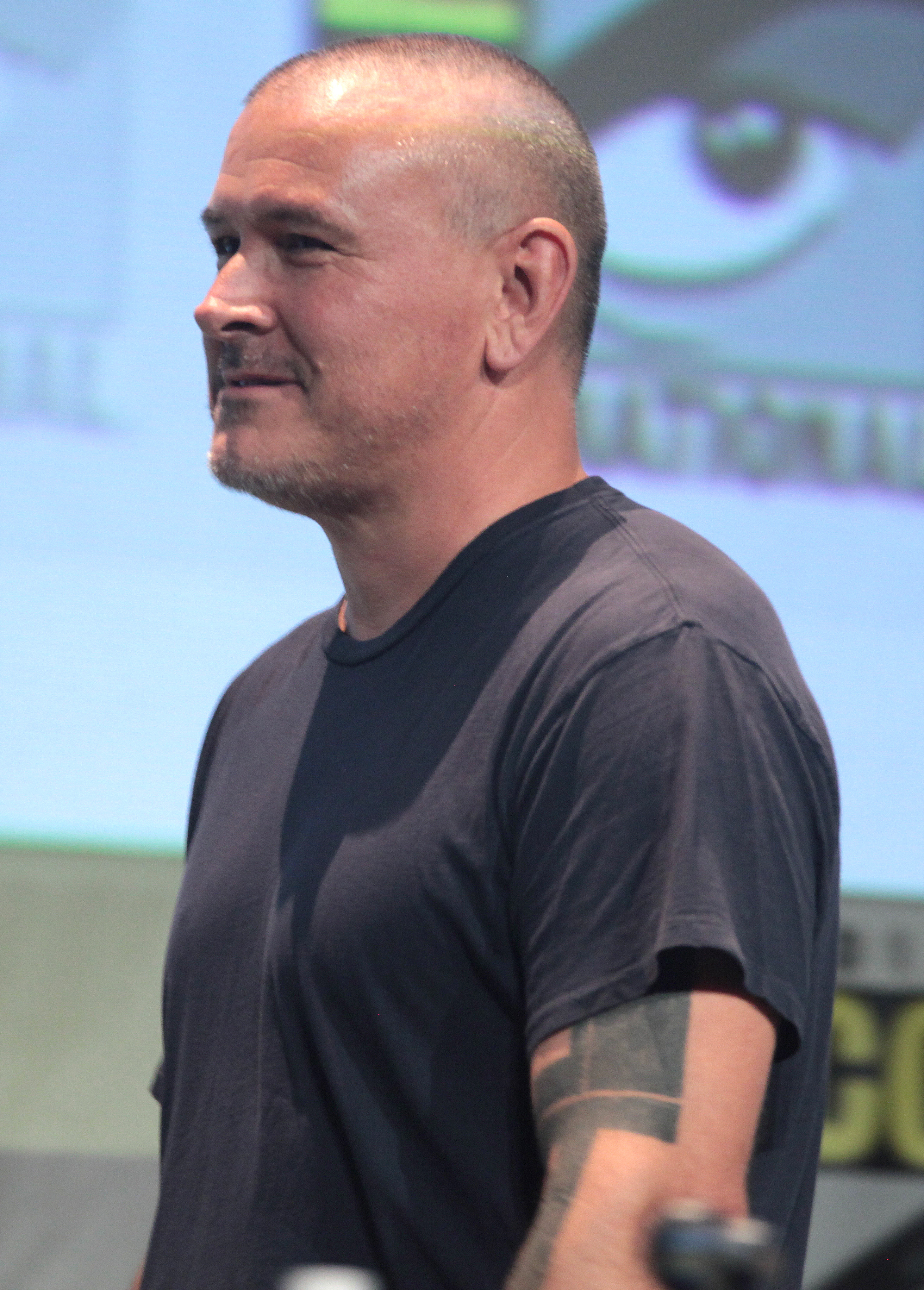 Tim Miller at the 2015 San Diego Comic Con International in San Diego, California.